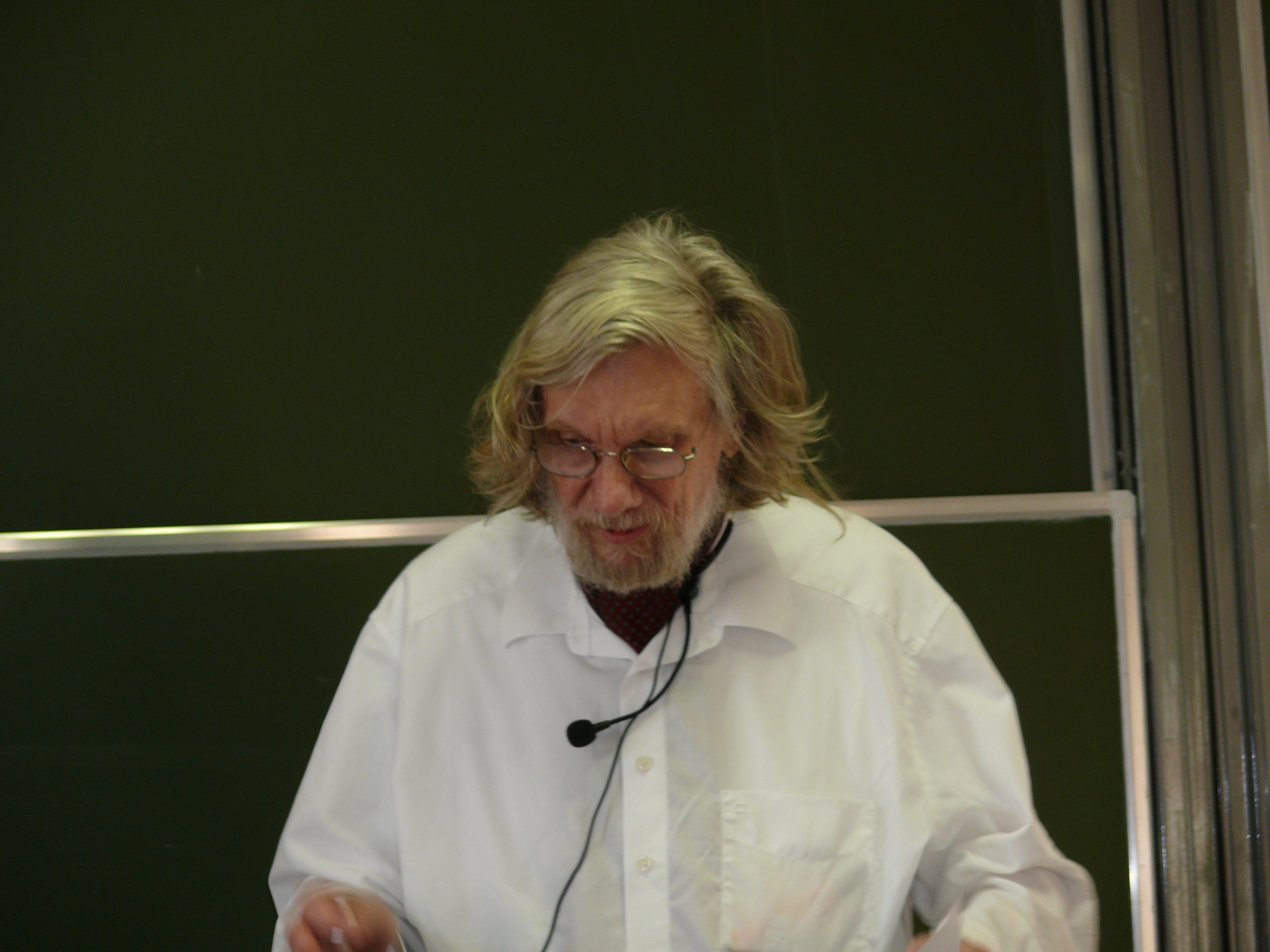 Prof Ronald Jensen, Będlewo, Poland; July 2007